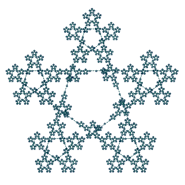 Designed by Vishva Kumara on a fractal application. Code {10:0, 10:-144, 10:-144, 10:-144, 10:-144, 10:-144, 10:0, 10:0}